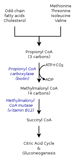 Schematic of enzymatic pathways involved in organic acidemias